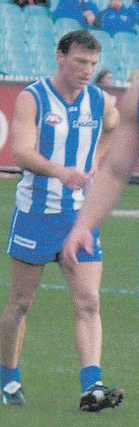 Brent Harvey in 2004